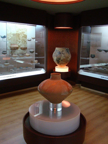 Stara Zagora Neolithic Dwellings - Interior view